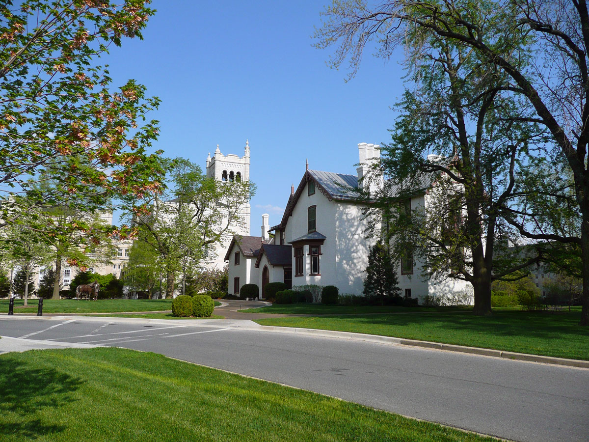 Lincoln Cottage at the United States Soldiers' and Airmen's Home in Washington, DC. The building is dedicated as President Lincoln and Soldiers' Home National Monument